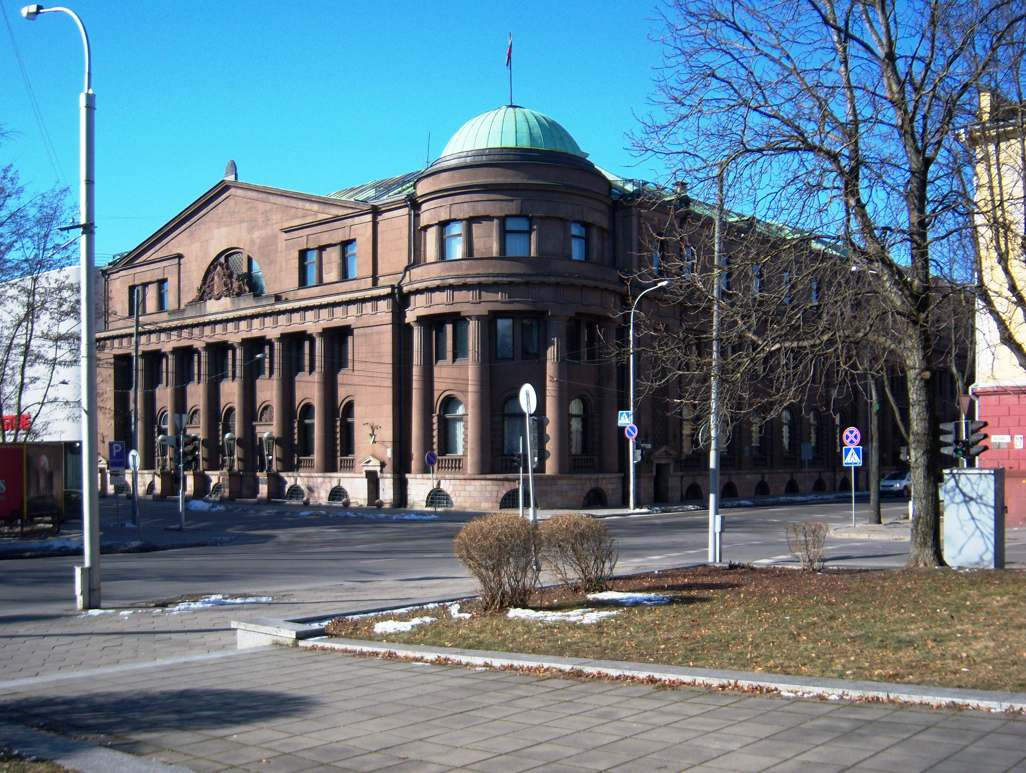 Branch of Bank of Lithuania in Kaunas, Maironis Str. 25